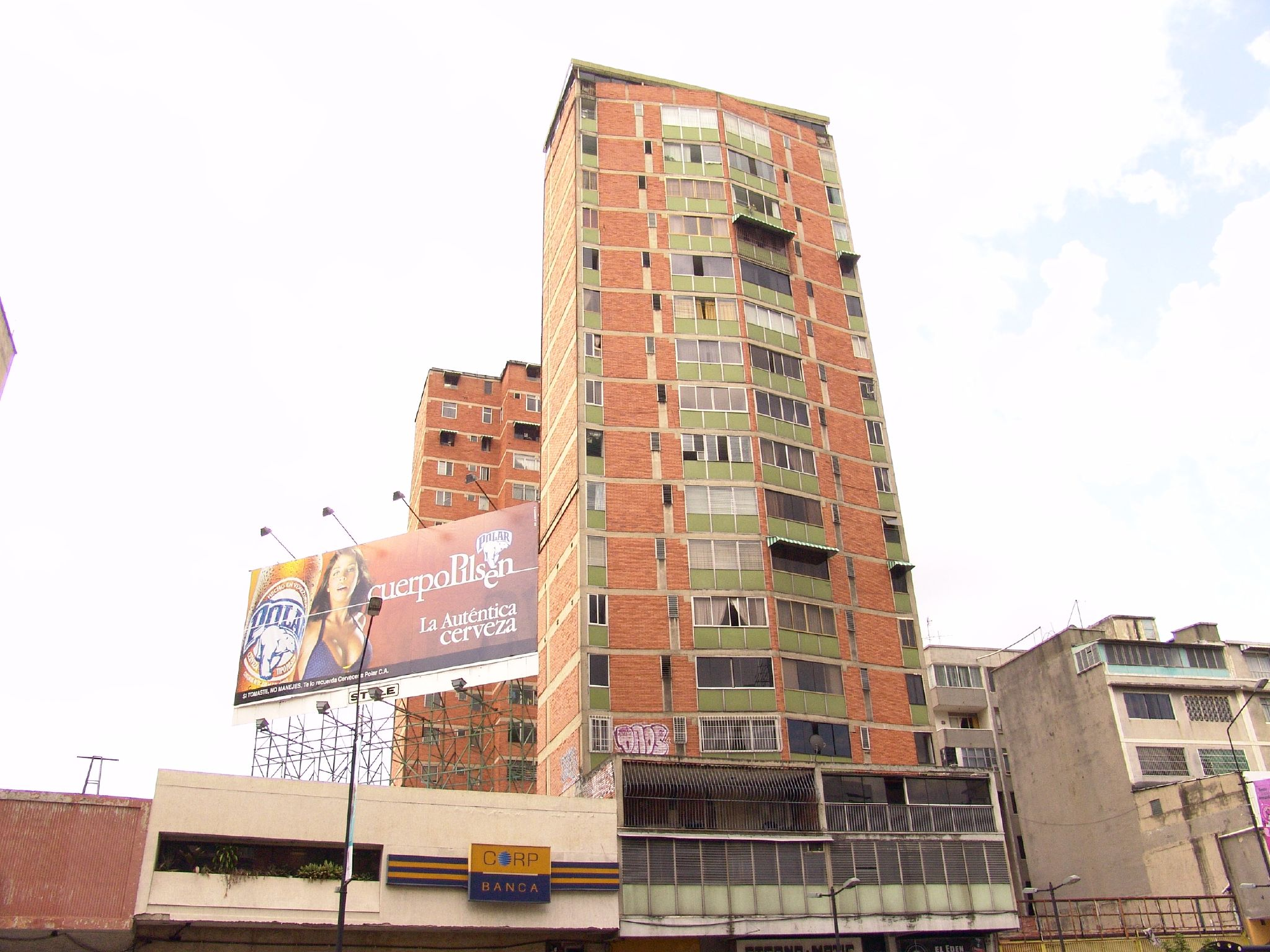 Buildings in Caracas